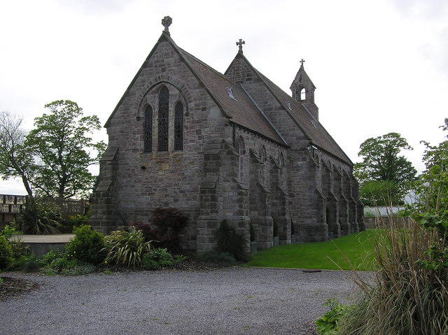 St.Mary's Church : Denton. This small church was built in 1891, replacing an earlier church built in 1836. The church is built of sandstone and has a small porch and side chapel to the south. The church is now deconsecrated and for sale as a private dwelling.